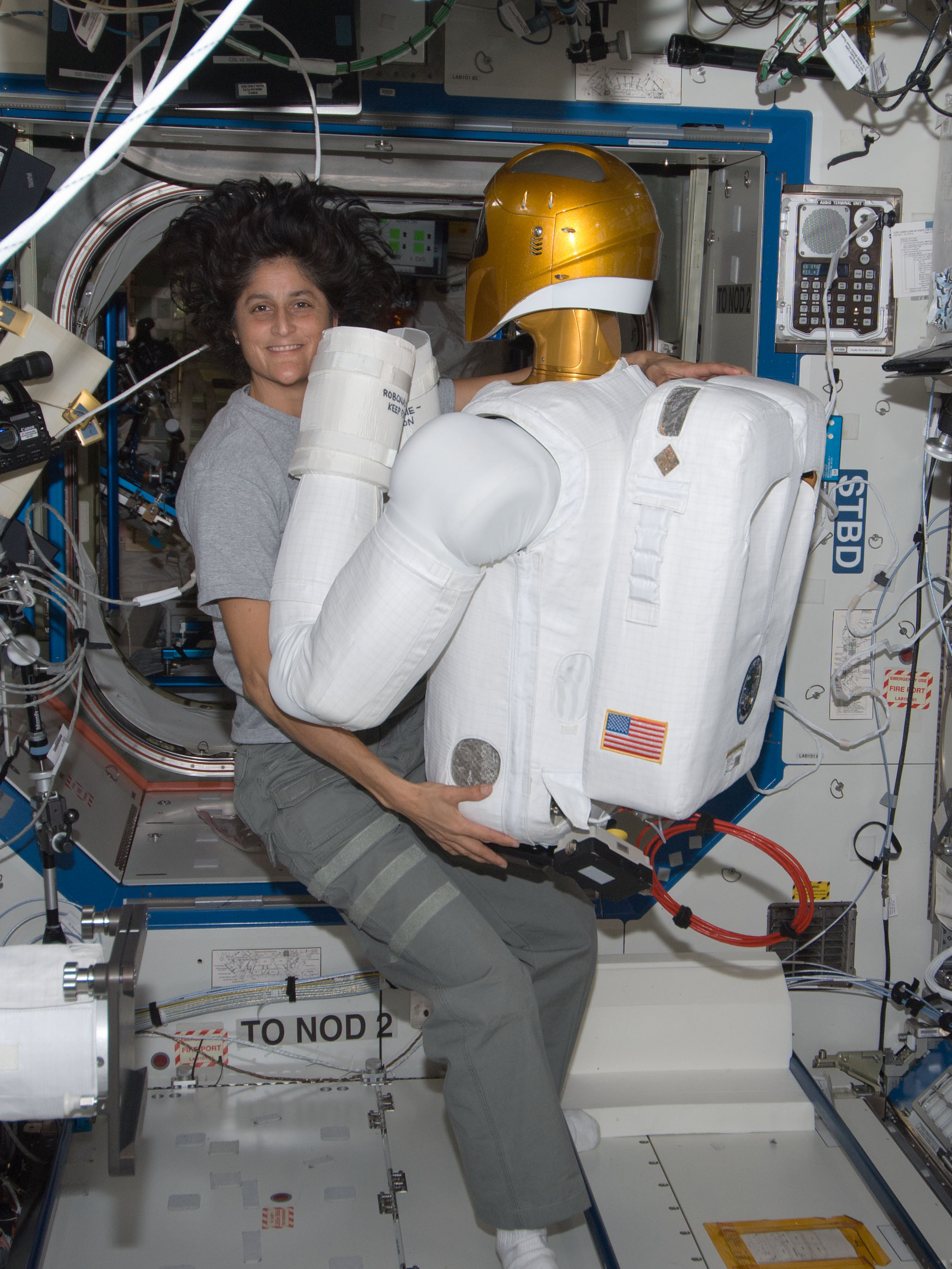 NASA astronaut Sunita Williams, Expedition 32 flight engineer, works with Robonaut 2 humanoid robot in the Destiny laboratory of the International Space Station.